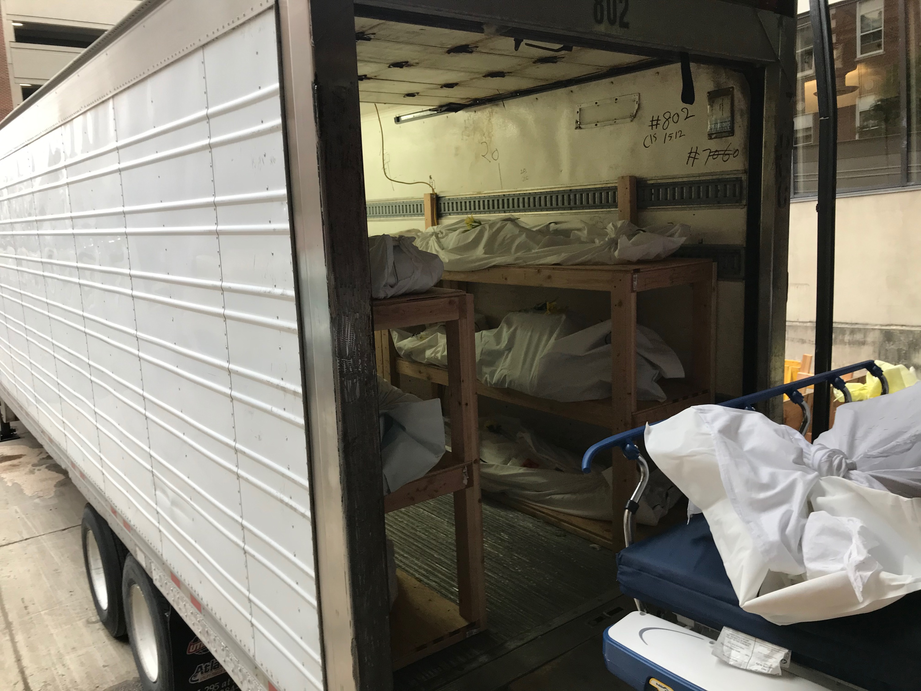 COVID19 deceased in Hackensack NJ April 27